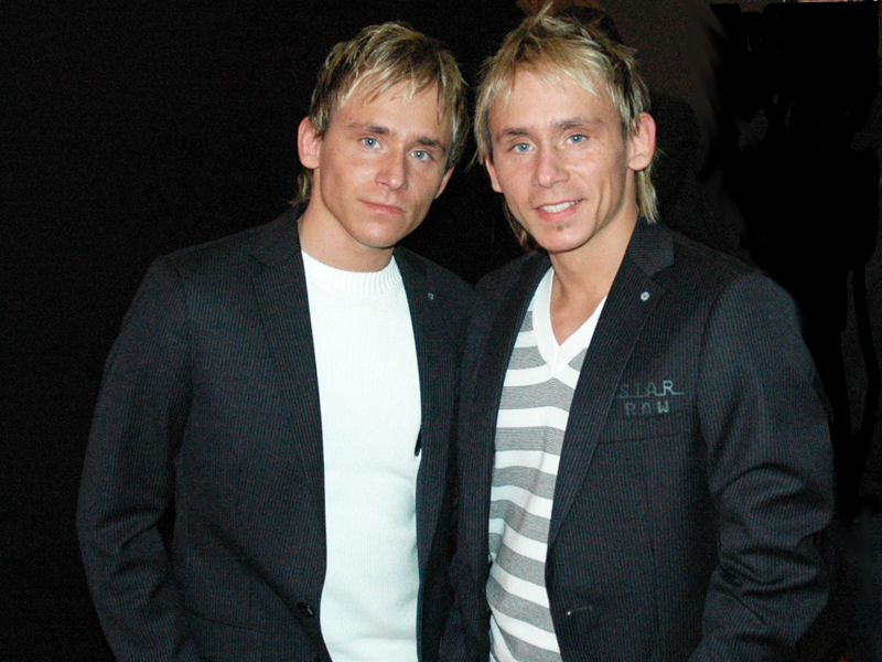 Dennis and Daniel Schellhase visiting WCG 2008